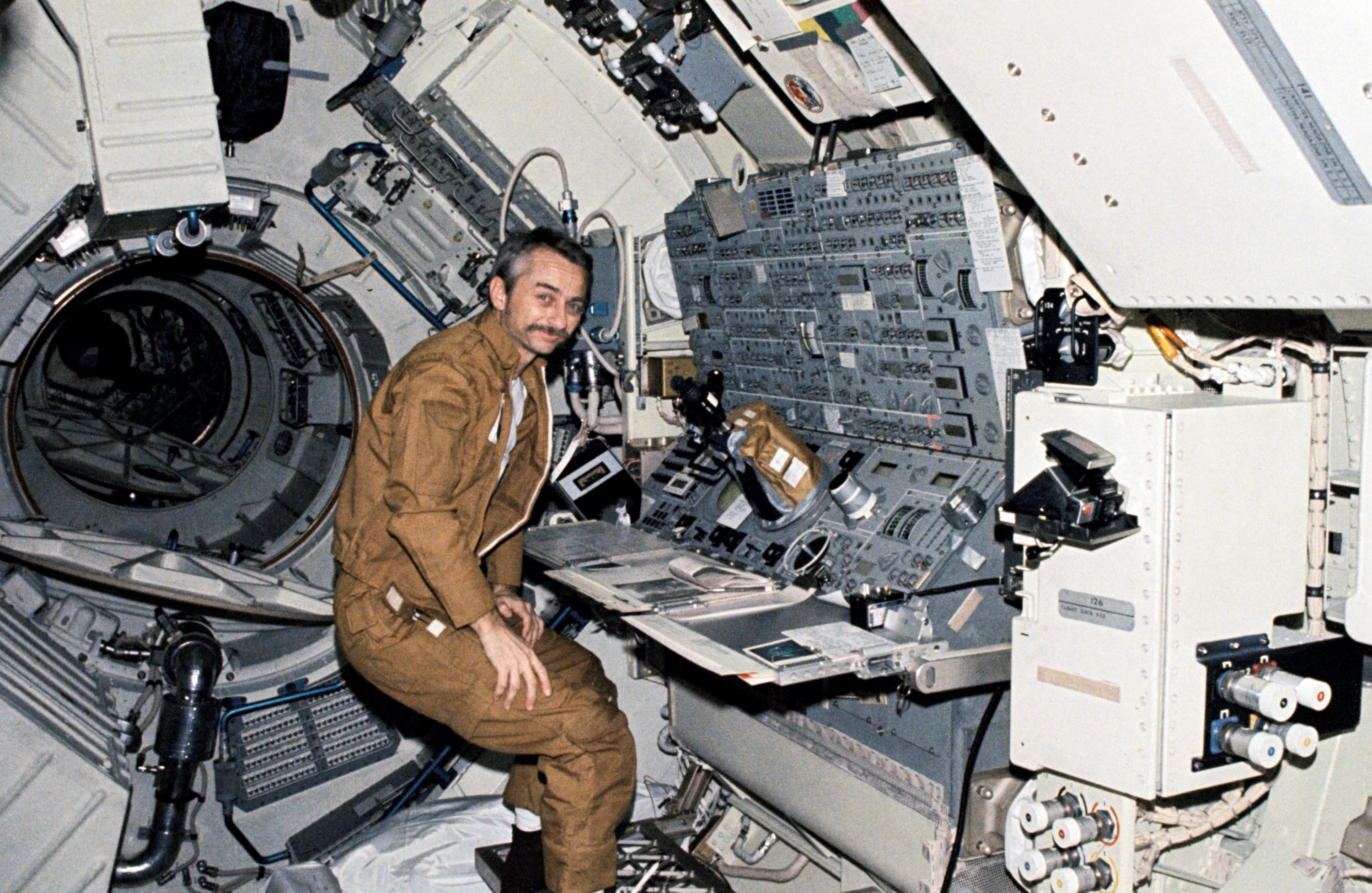 Scientist-Astronaut Owen K. Garriott, science pilot of the Skylab 3 mission, is stationed at the Apollo Telescope Mount (ATM) console in the Multiple Docking Adapter of the Skylab space station in Earth orbit. From this console the astronauts actively control the ATM solar physics telescope.